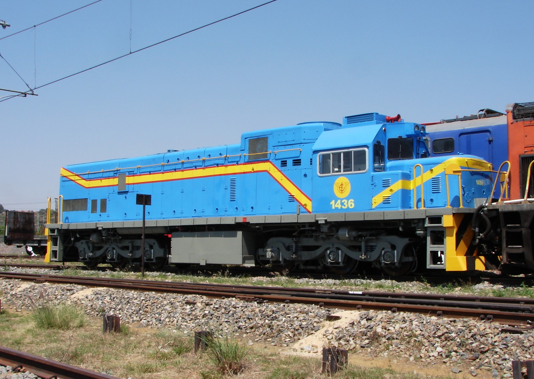 South African Class 33-000, sold to the Congolese Company for Transportation and Ports (SCTP, formerly Onatra) and numbered 1436Type: GE U20CLocation: Koedoespoort, Pretoria